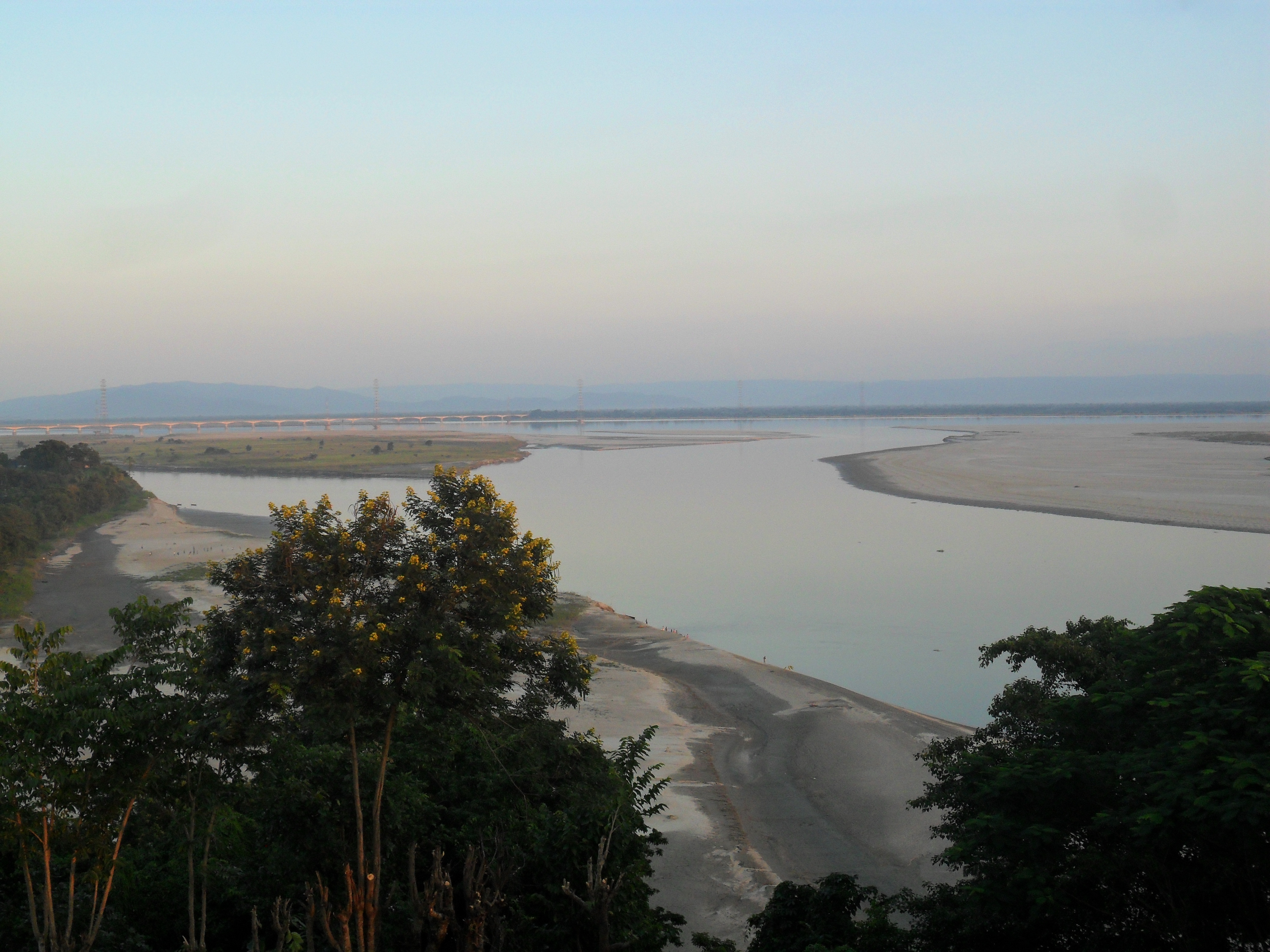 Veiw of Brahmaputra from Top of Agnigarh hill (Tezpur).